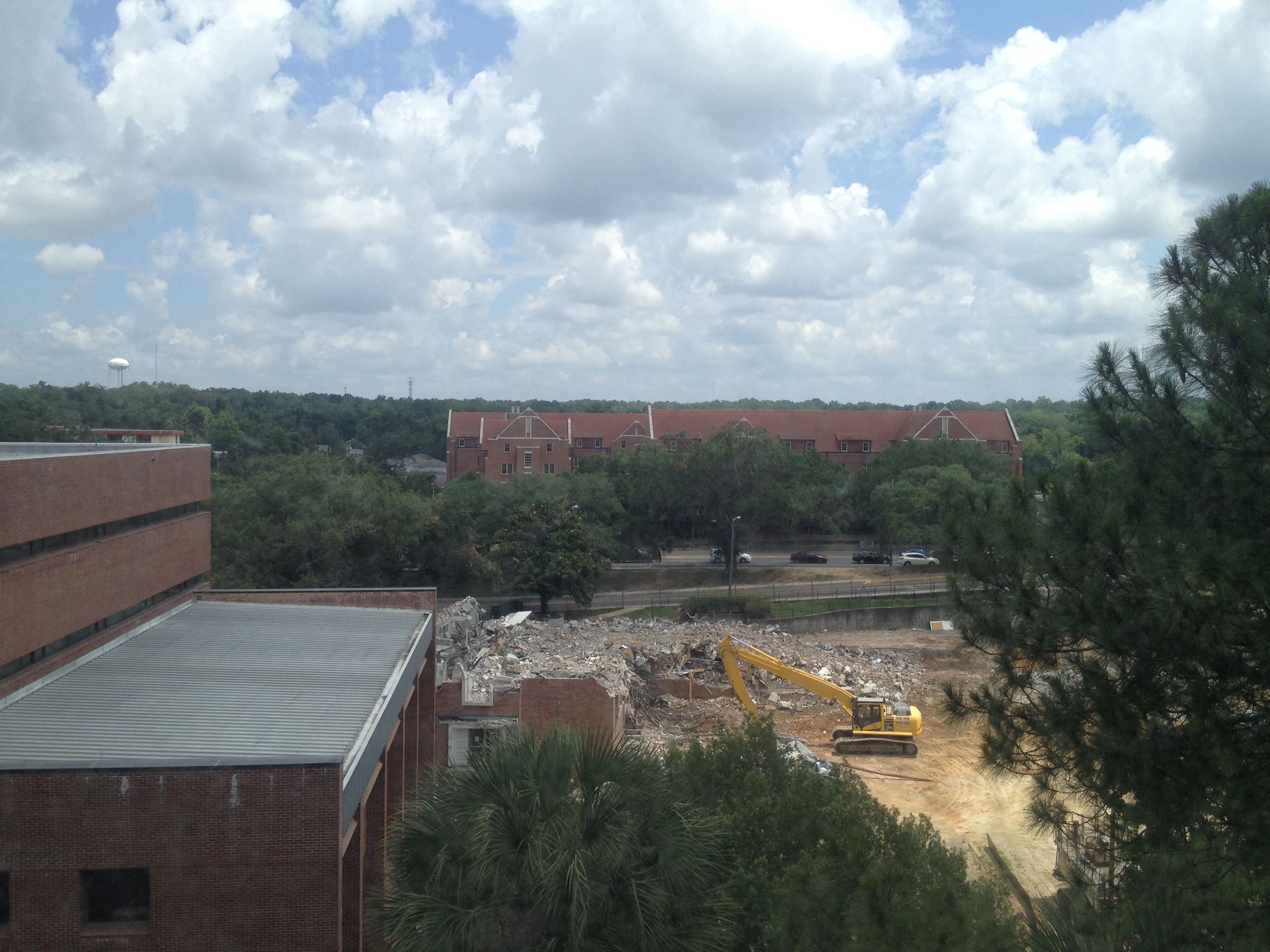 This is a photo of Degraff Hall at FSU taken from the 5th Floor of Strozier Library